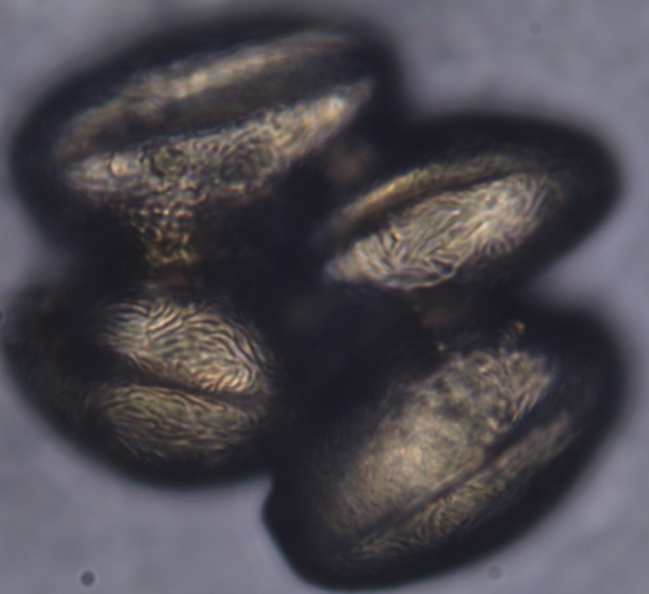 Acer platanoides Pollen 400x